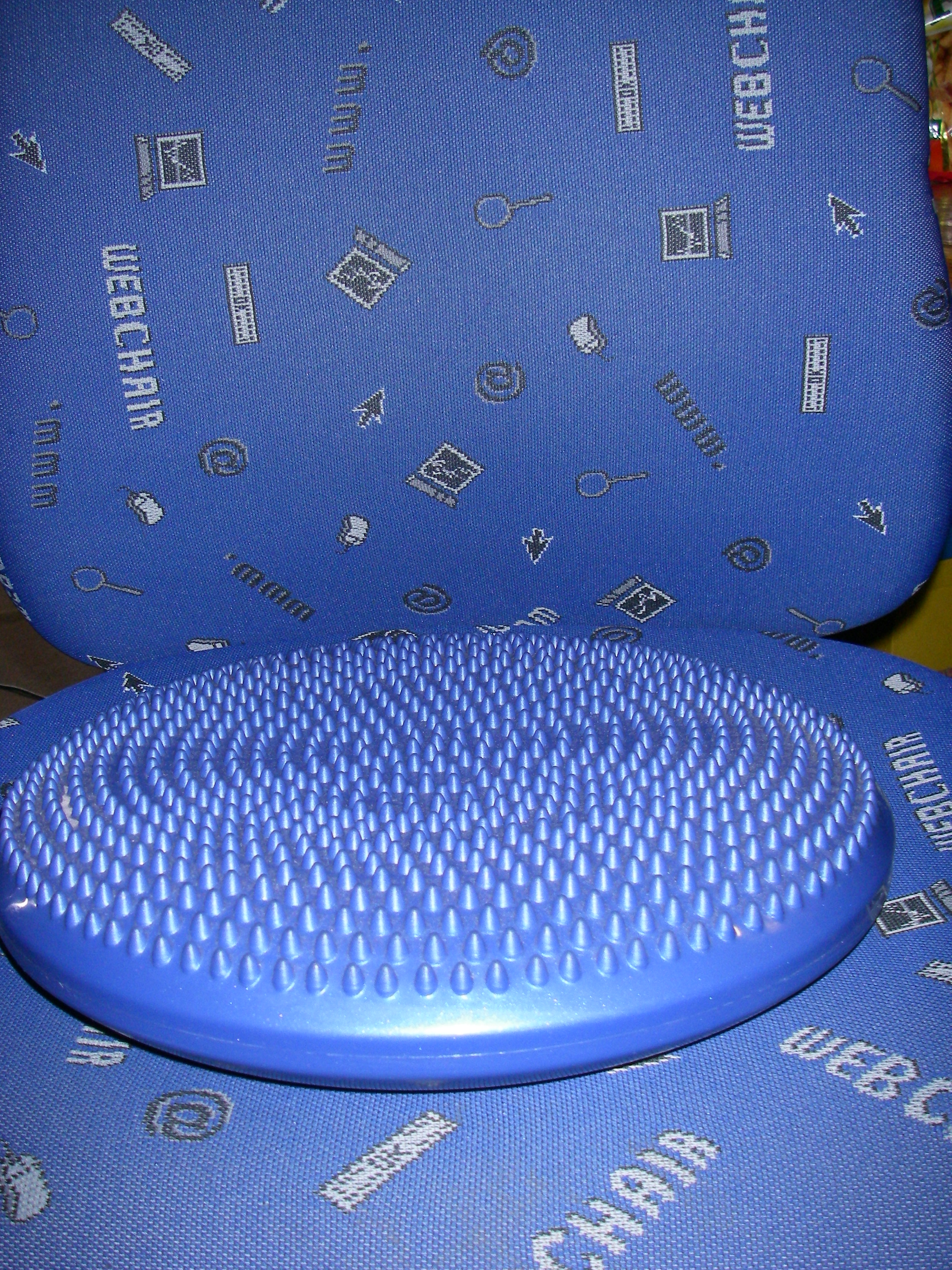 a balance cushion on a desk chair